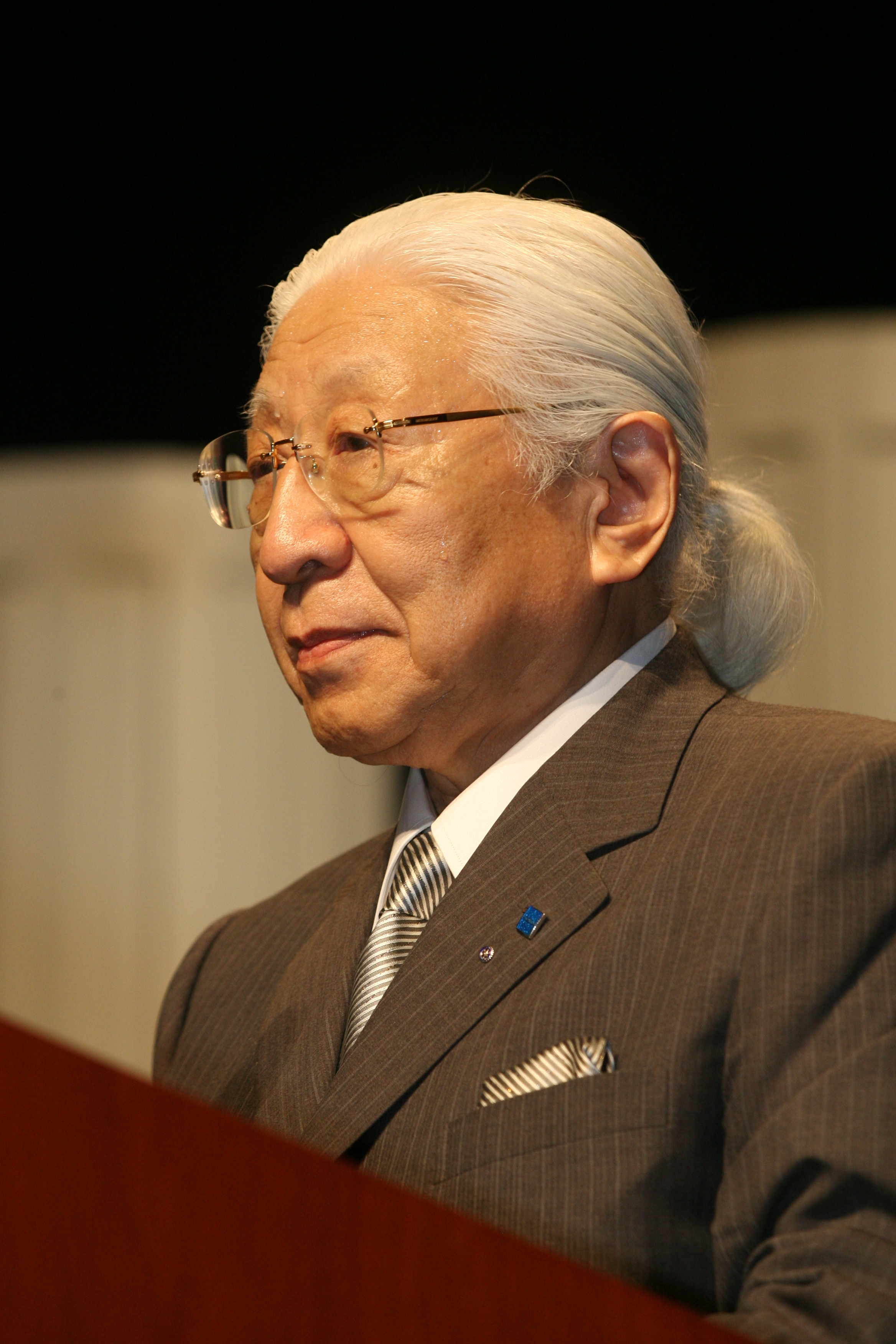 Photograph of chemist Masao Horiba, recipient of the 2006 Pittcon Heritage Award, jointly sponsored by the Pittsburgh Conference on Analytical Chemistry and Applied Spectroscopy (Pittcon) and the Chemical Heritage Foundation.